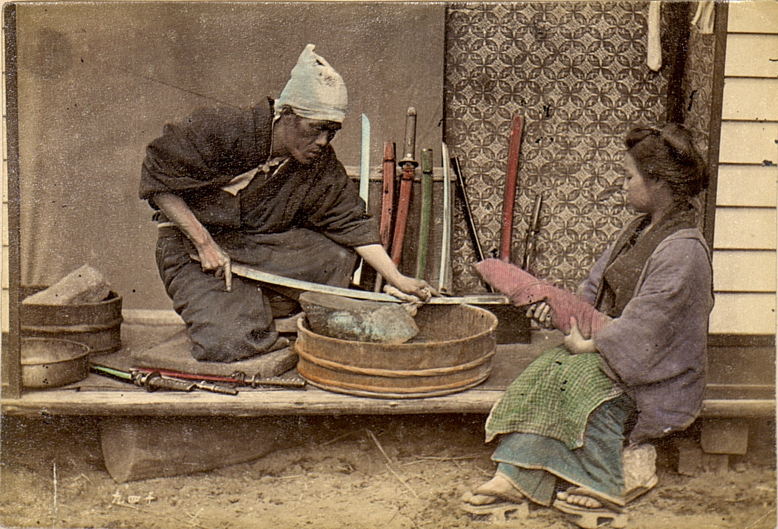 Japanese sword sharpener practicing his trade. In the Edo period, large whetstones were put in a basin like this for sword sharpening and added date 1909.